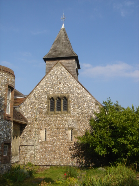 West end of the nave at St Peter's Church, West Blatchington, City of Brighton and Hove, England, showing Norman-era slit windows, modern triple-headed window and bell tower.